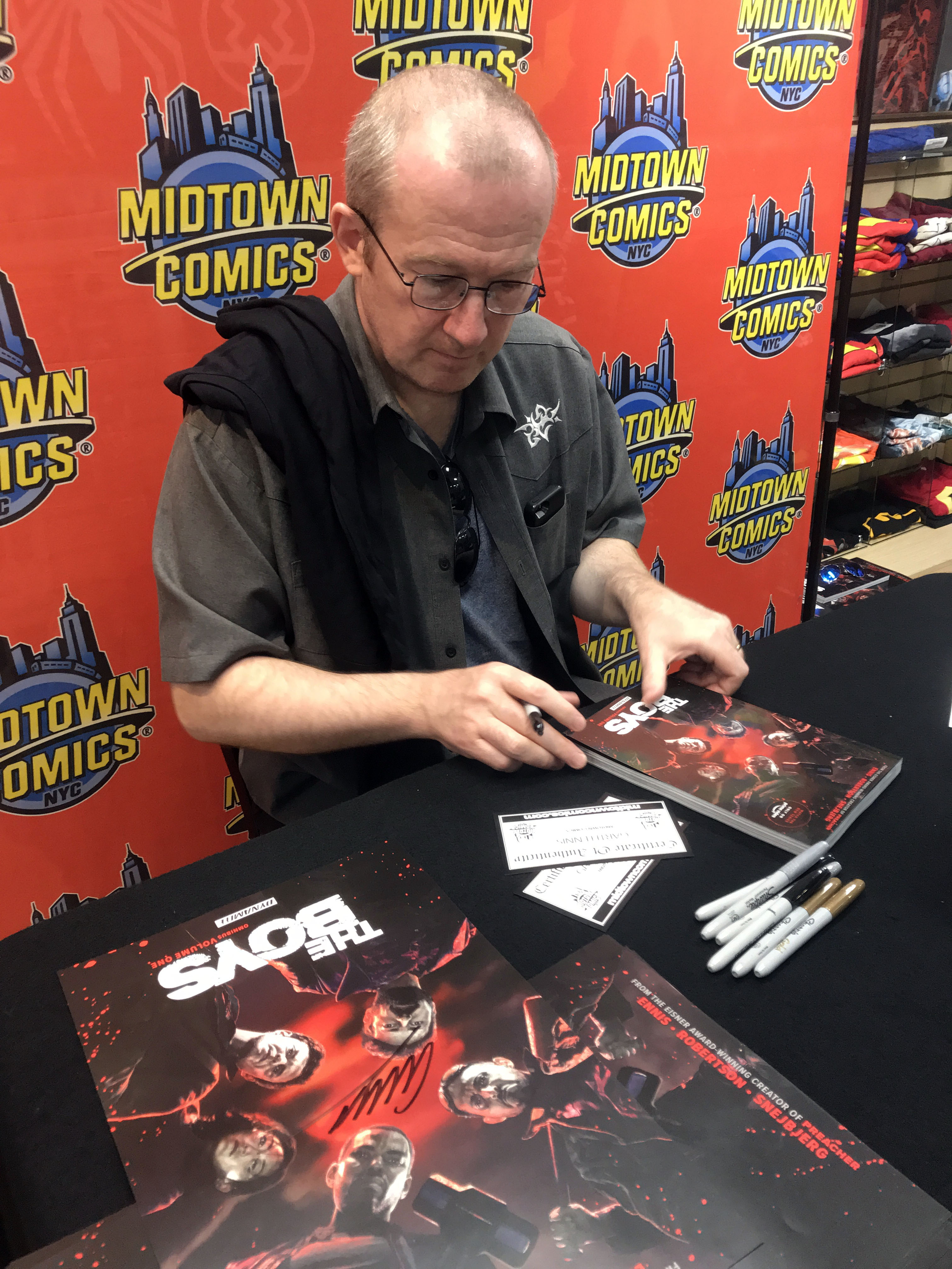 Comics writer and Garth Ennis at a Saturday, June 1, 2019 signing for The Boys Omnibus Vol 1 at Midtown Comics Downtown in Manhattan. The book's cover image is that of the promotional image for the then-upcoming television series of the same name, a poster for which Ennis can also be seen signing in the image. This photo was created by Luigi Novi. It is not in the public domain, and use of this file outside of the licensing terms is a copyright violation.